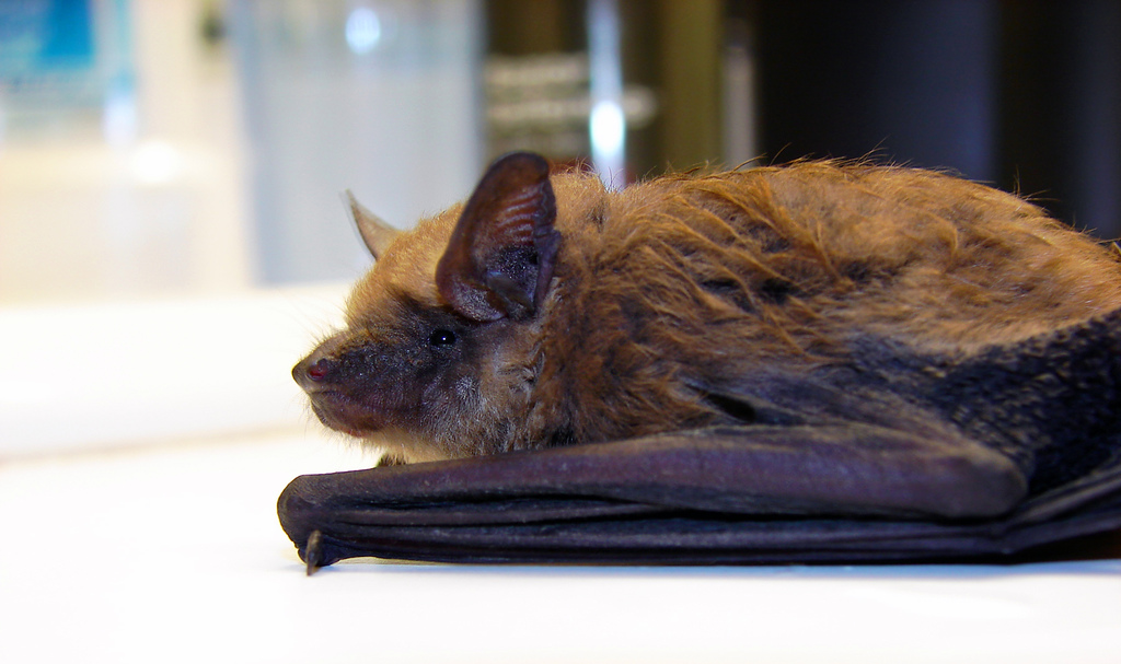 Ok, so most of them are countertop bats, but I couldn't think of a title. This is the "Sweetie" bat again. For a bat she was very photogenic. Big brown bat, Eptesicus fuscus.